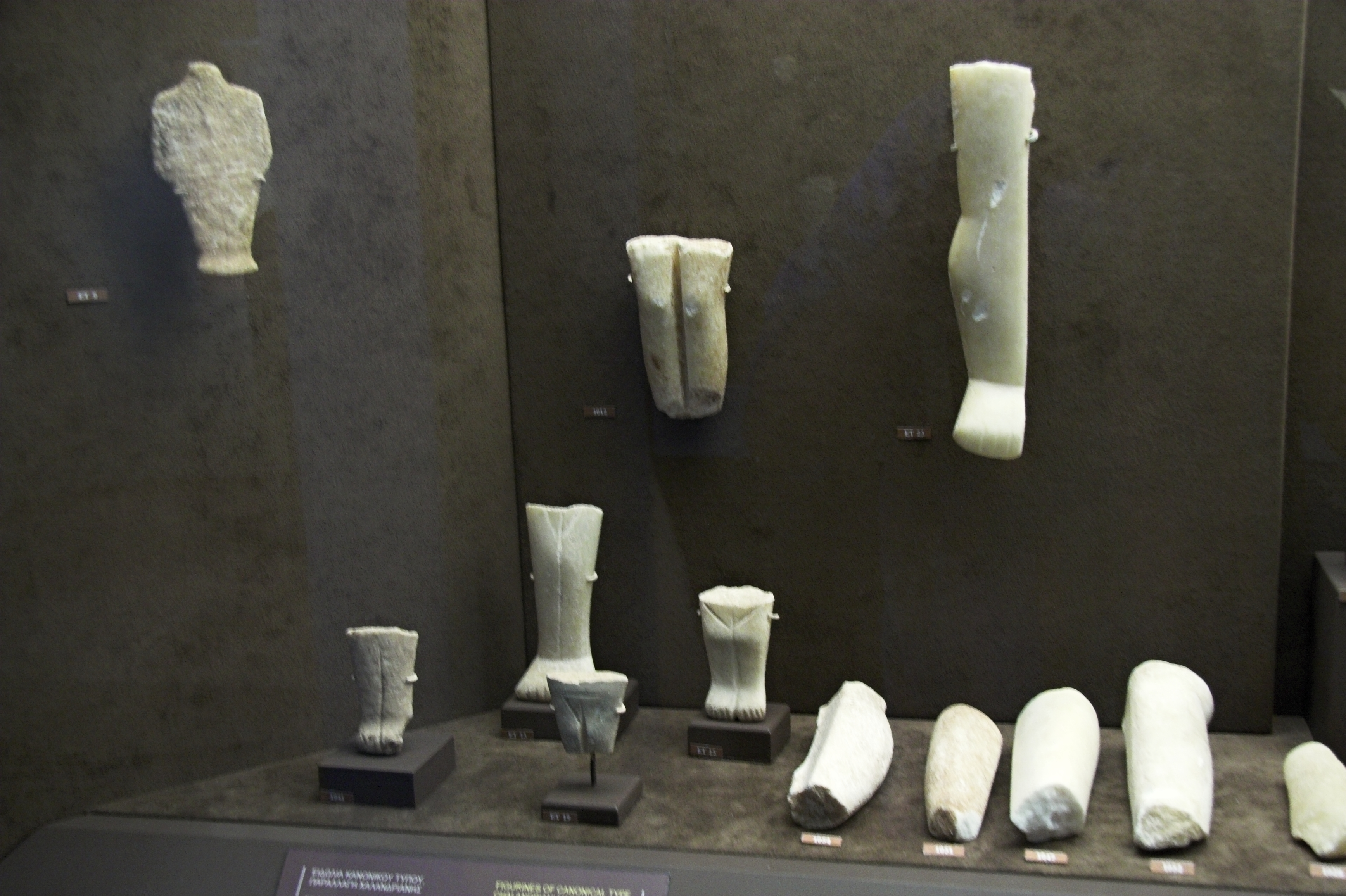 The Keros Hoard. Right foot of Cycladic idol, female figurine, the canonical type, Spedos variety, marble, height 19 cm, from the Keros. EC II, 2800-2300 BC. Goulandris Foundation Museum of Cycladic Art (Athens) ET 23 (+ ET 11, 13, 19).